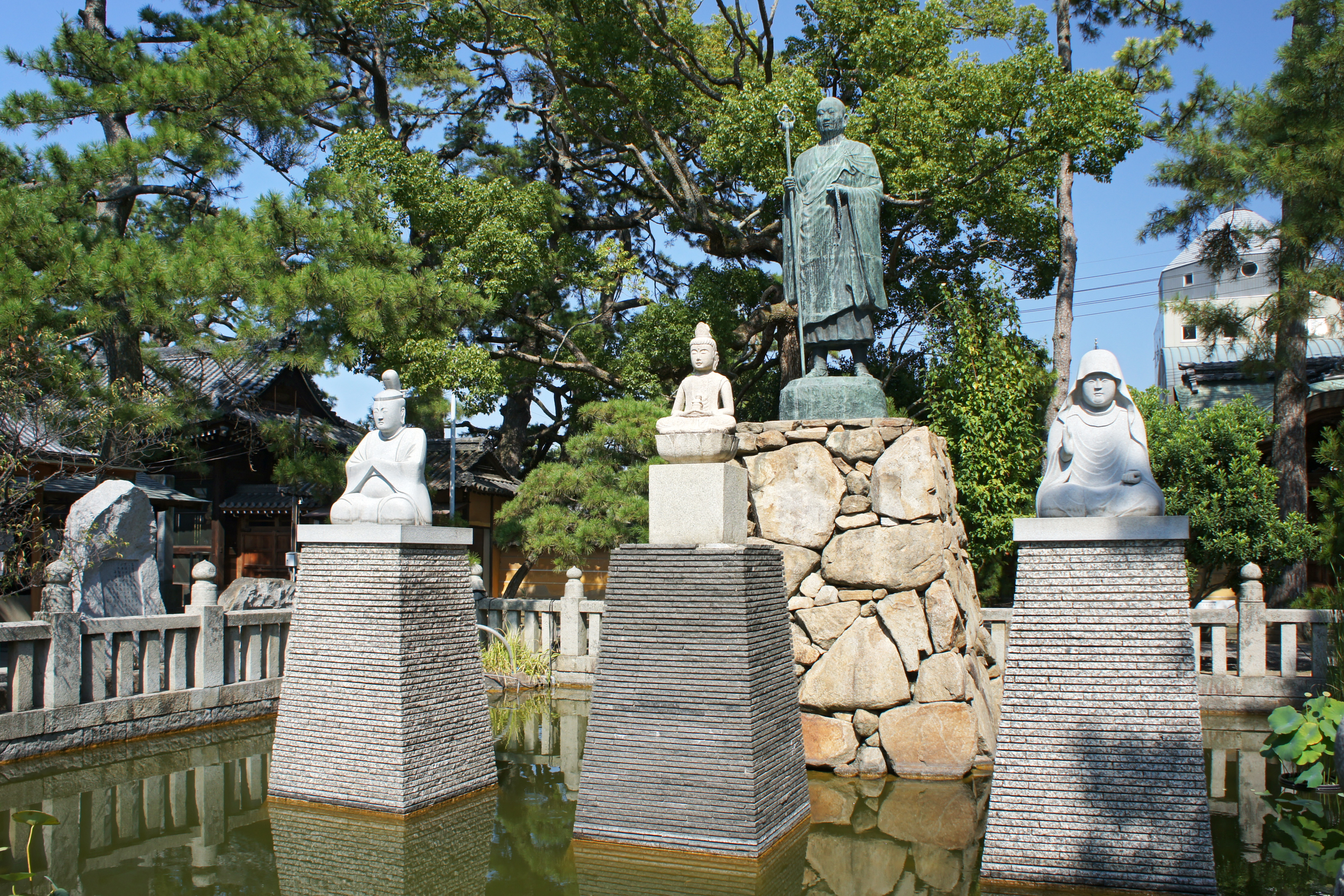 Zentsu-ji in Zentsuji, Kagawa prefecture, Japan.